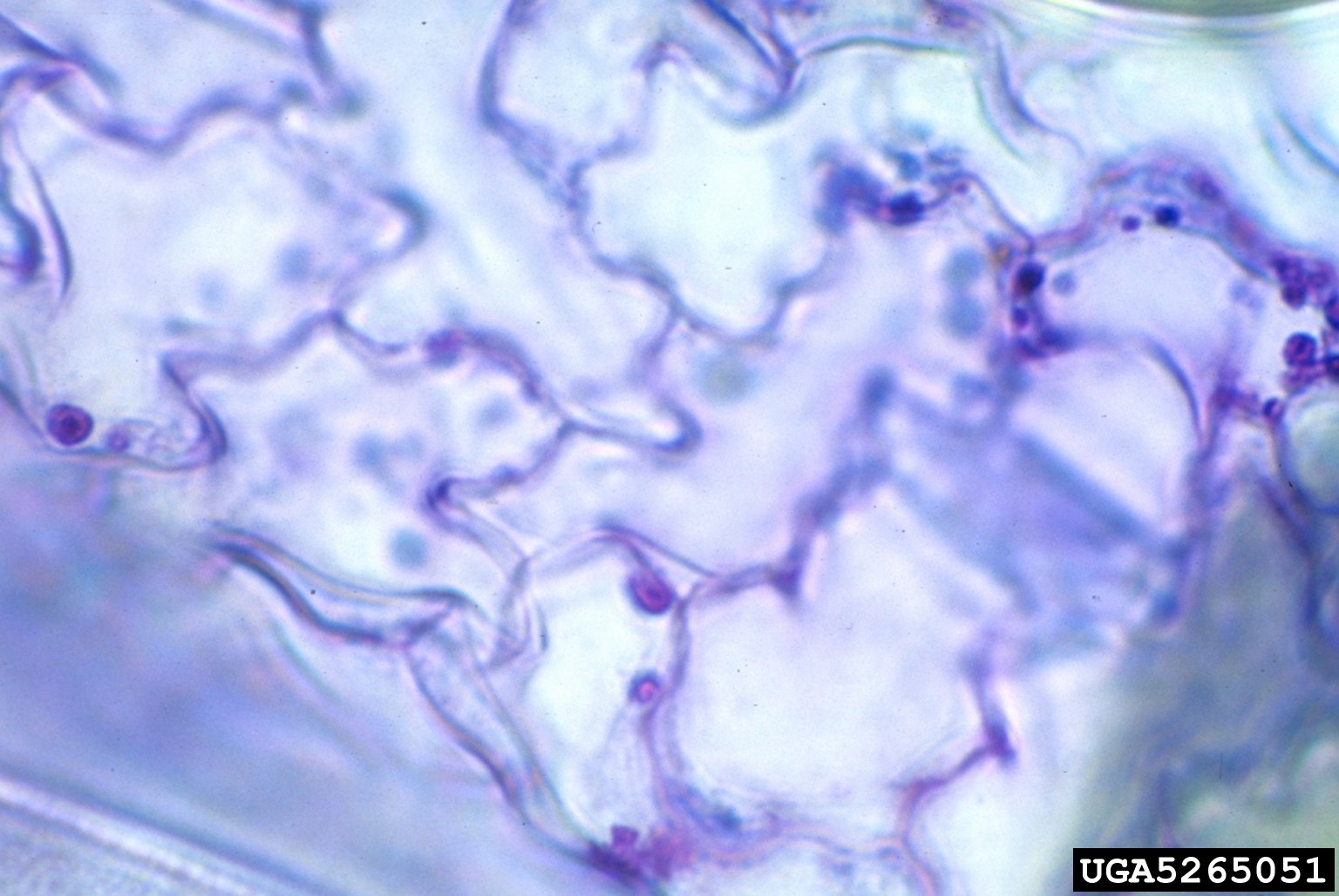 Photo of Cucumber mosaic virus inclusion bodies in plant cells